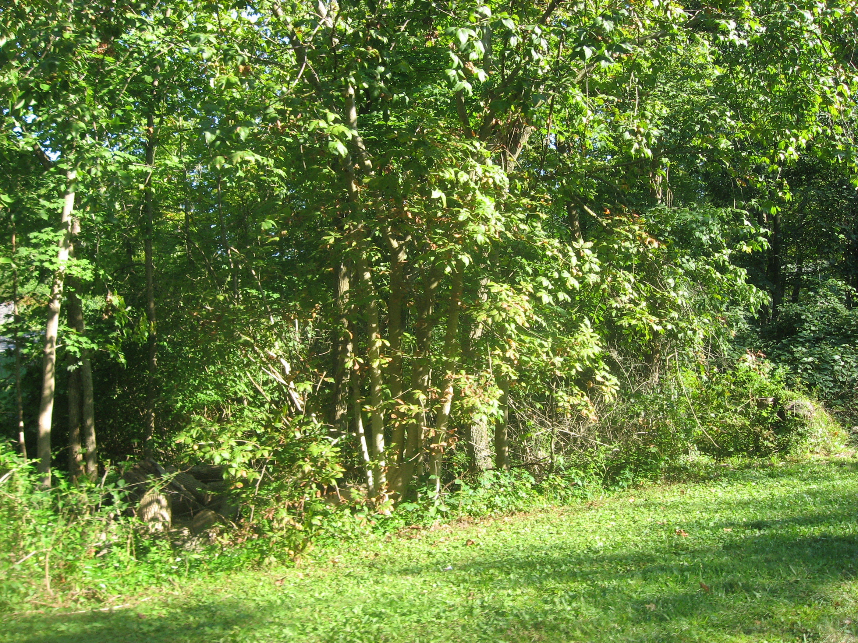 Woods along Spruce Run south of Galena in Genoa Township, Delaware County, Ohio, United States. Located within the woods are the Spruce Run Earthworks, a complex of earthworks built by people of the Adena culture. As an archaeological site, the works are listed on the National Register of Historic Places.